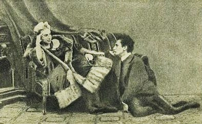 Leo with Fannie (Leopold von Sacher-Masoch and Fanny Pistor Bogdanoff, note the whip). Leopold von Sacher-Masoch (1836–1895) - Austrian writer and journalist, who gained renown for his romantic stories of Galician life. The term masochism is derived from his name.